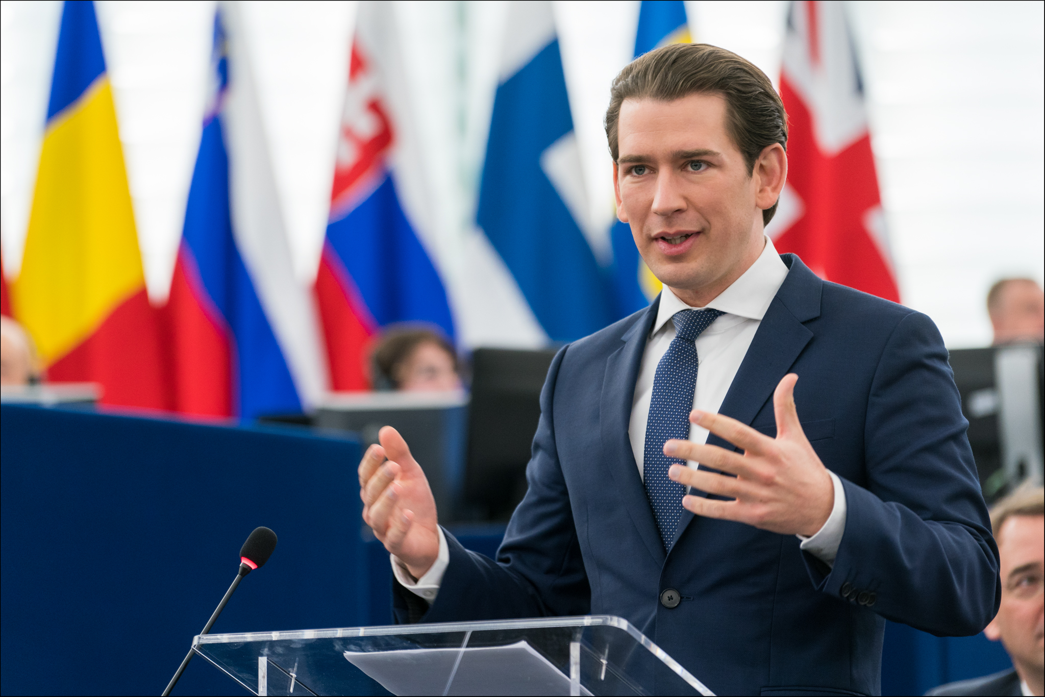 Austrian Chancellor Sebastian Kurz thanked the European Parliament for the successful cooperation and promised to continue contributing towards strengthening the EU. Fifty-three successfully concluded legislative procedures, an initiative against anti-Semitism, the Africa Forum, preliminary work on the negotiations on the EU’s long-term budget and new ideas on revising the EU Commission’s asylum proposals; these have made the Austrian Presidency one of the "most successful in the EU’s recent history", said European Commission President Jean-Claude Juncker on Tuesday morning during the European Parliament’s closing debate on the six-month Austrian Presidency of the Council. This photo is free to use under Creative Commons license CC-BY-4.0 and must be credited: "CC-BY-4.0: © European Union 20XY – Source: EP". No model release form if applicable. For bigger HR files please contact: webcom-flickr(AT)